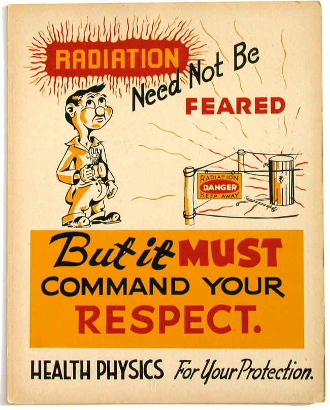 "These posters were produced at Oak Ridge National Laboratory in 1947. The purpose of the posters was to remind personnel of radiation safety practices and also to let them know what the term "Health Physics" meant, i.e. radiation protection. In 1947 the term was only 4 years old and no less confusing then than now."